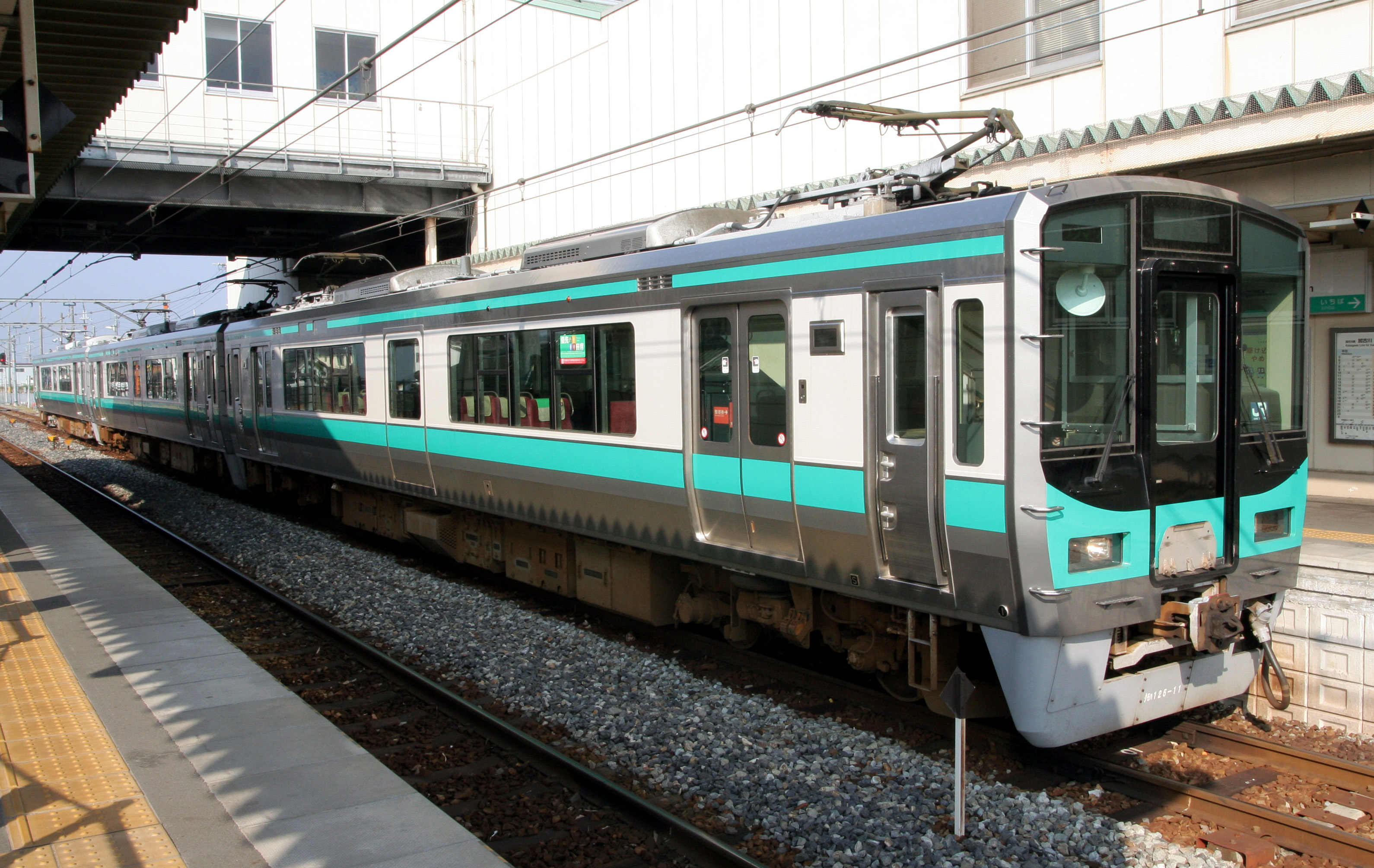 JR West Kumoha 125-12 EMU at Yakujin Station on the Kakogawa Line